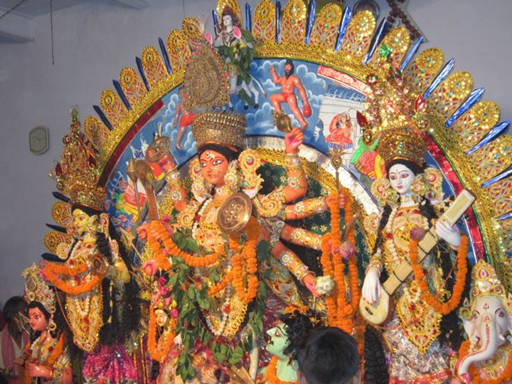 This image explain local festival.